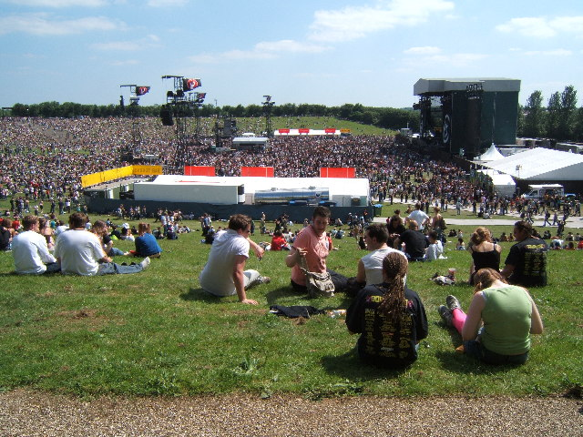 Greenday Concert at the Milton Keynes Bowl